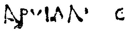 Inscription on the Portrait of Archidamos III